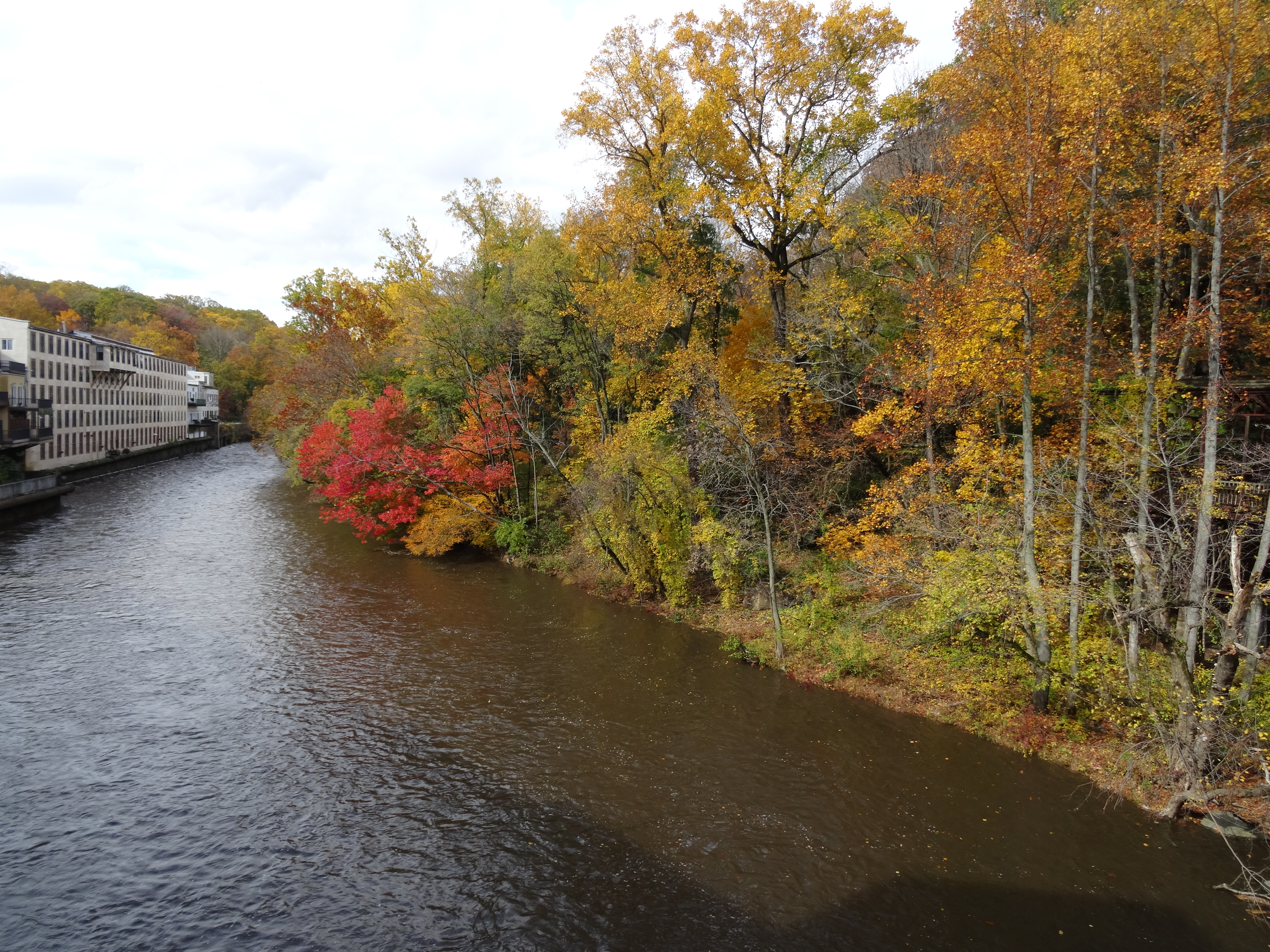 View of the Brandywine from the Alapocas bridge.